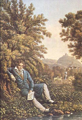 Beethoven composing the Pastoral symphony, as depicted in the "Almanach der Musikgesellschaft" edited in Zurich in 1834.